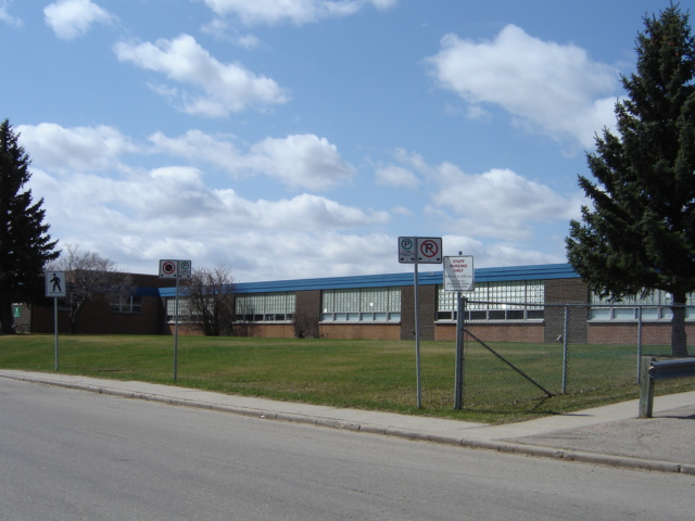 Howard Coad School / Royal West Campus / Mount Royal Collegiate Mount Royal, Saskatoon